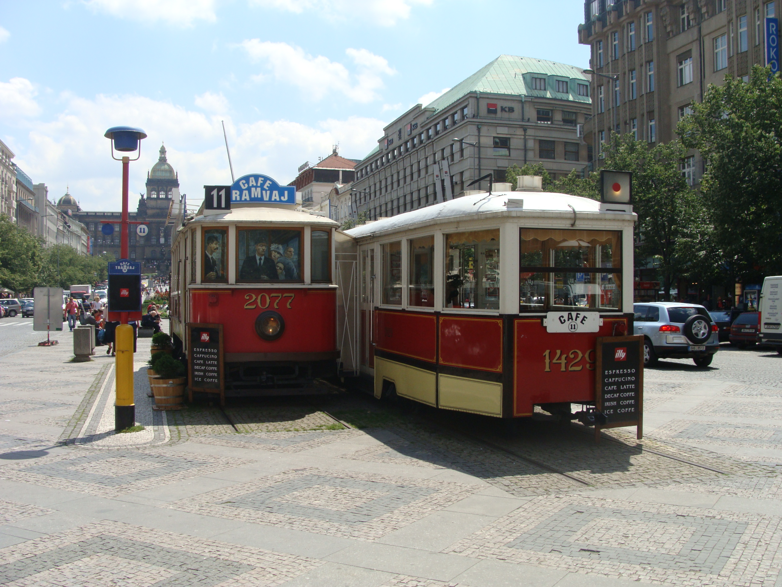 Photo of Prague in 2009-06-18